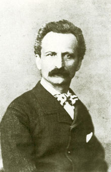 Photography of Silvestro Lega (December 8, 1826 - September 21, 1895